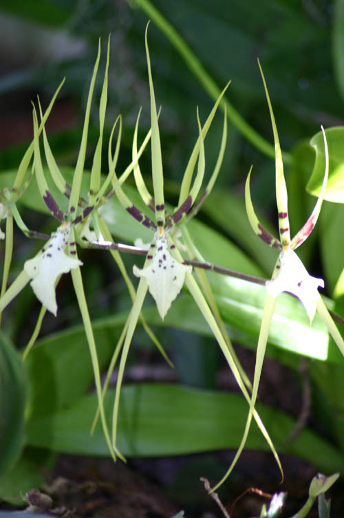 Brassia gireoudiana "Gireoud's Brassia" Found in the Orchid room.